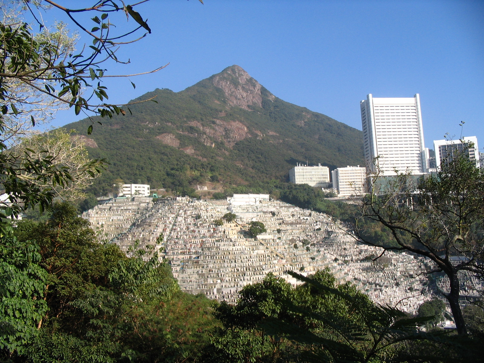 Photo of High West